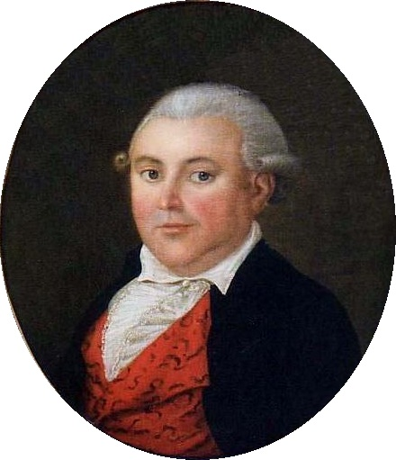 German-Swedish pioneer Jacob Marcus (1749-1819), as released by image owner FamSACPlace: probably Norrköping, Sweden (photo: Skärholmen, Sweden)